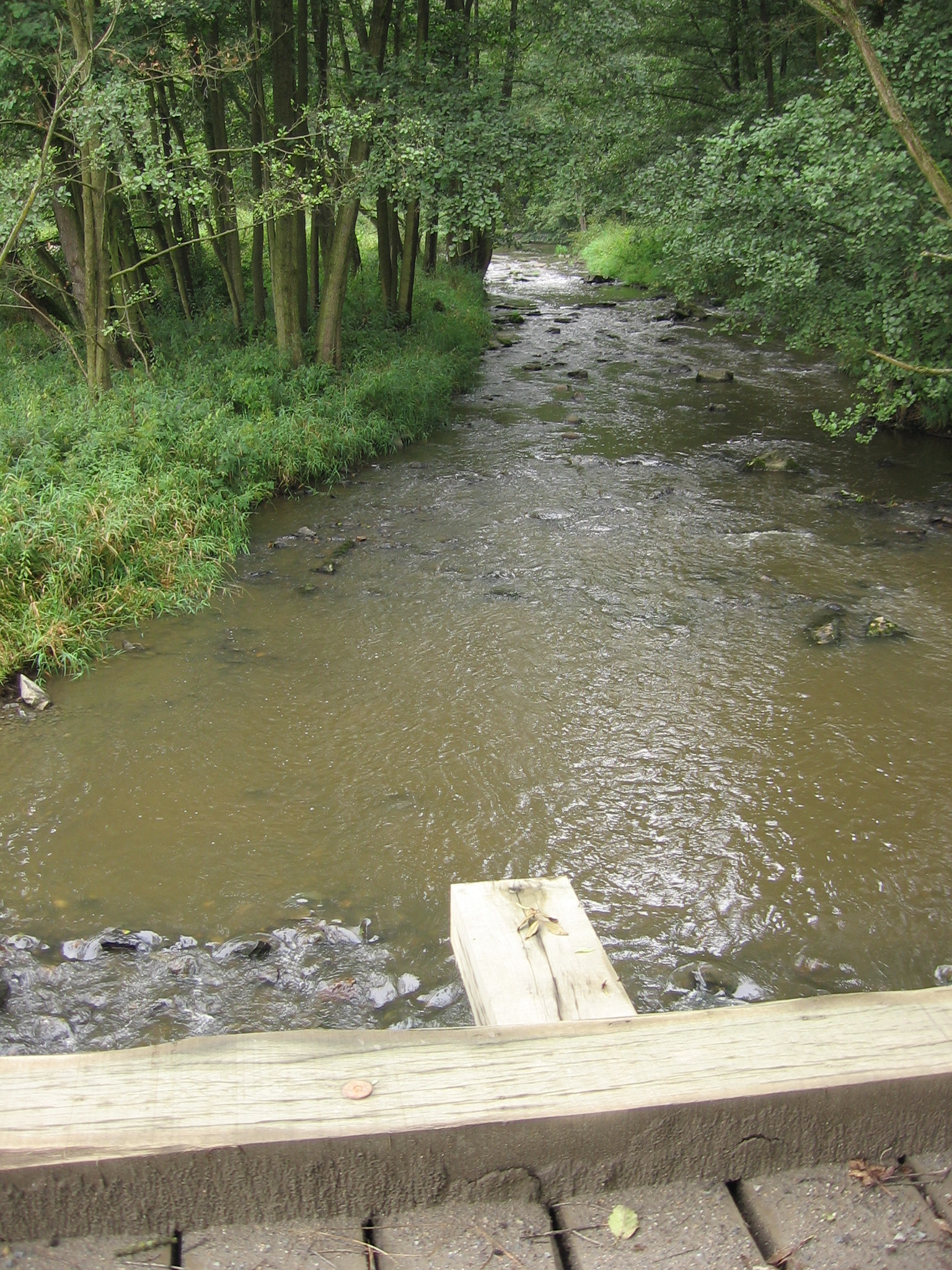 Hamerský potok - close to the junction with Mže